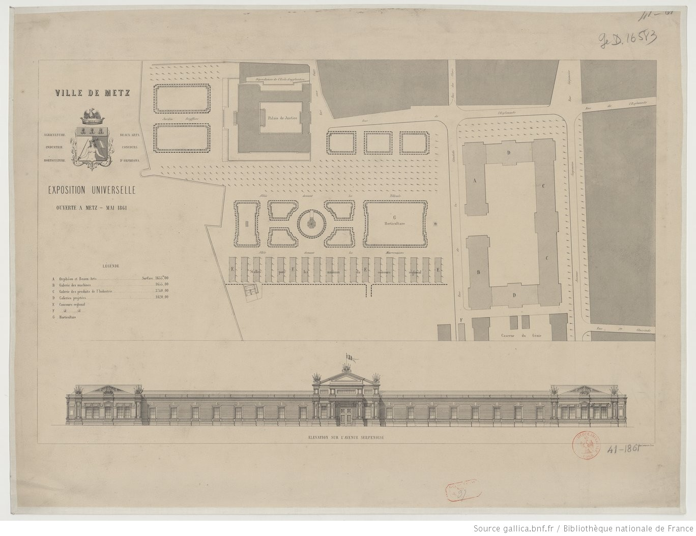 map of the universal exhibition of Metz (France) 1861 : agriculture, industry, horticulture, Beaux-Arts, Orpheon competition